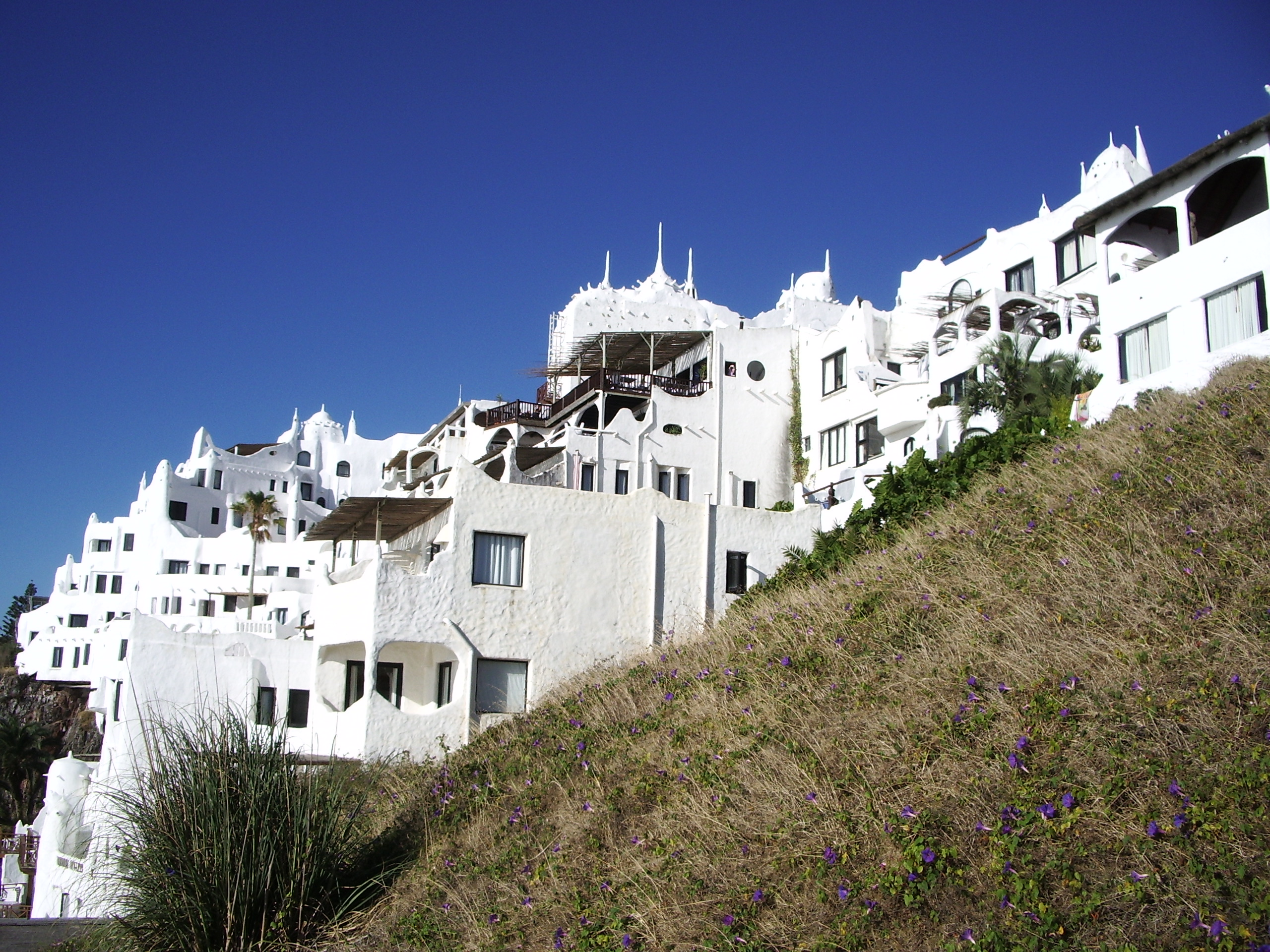 A picture of Casapueblo, in Punta Ballena, Uruguay